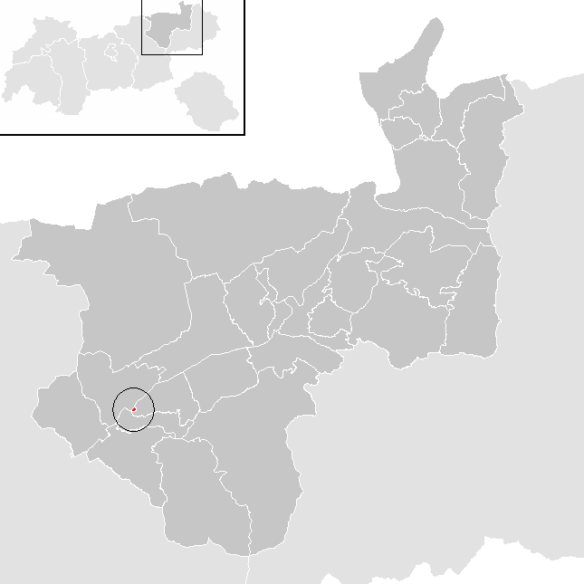 District Kufstein